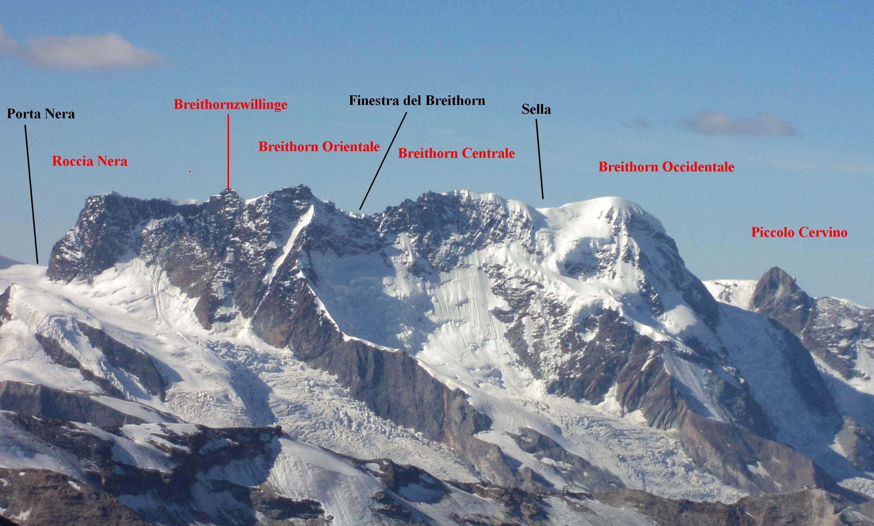 Black Gate, Roccia Nera, Gendarm (eastern Breithorn Twin), Eastern Breithorn (western Breithorn Twin), Selle, Central Breithorn, unnamed, Breithorn (Western Summit)